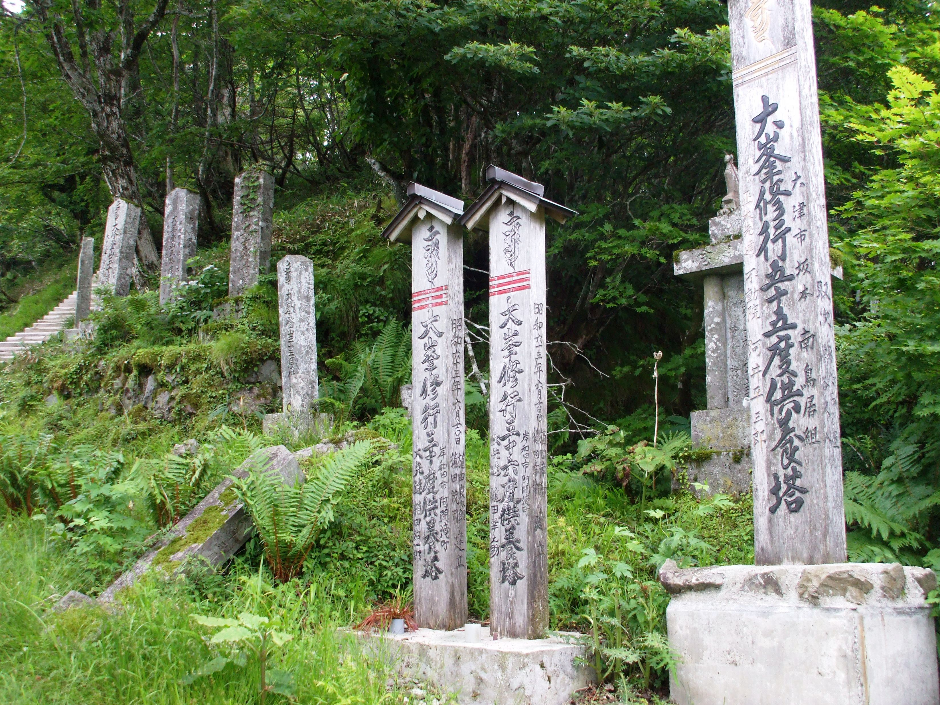 Religious objects on a way to Ominesanji Temple, Nara, Japan.